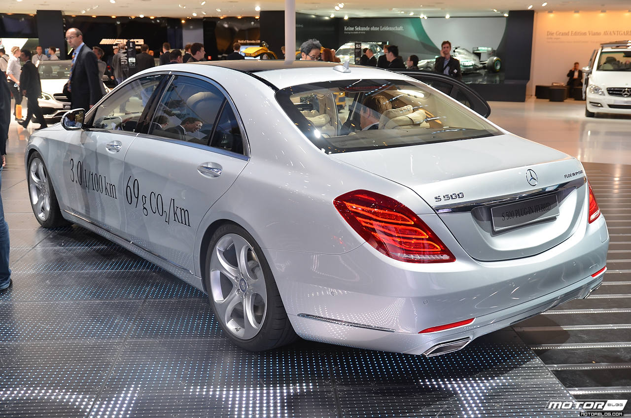 IAA Frankfurt 2013: Mercedes-Benz S 500 Plug-in Hybrid / Photo: Raphael Jahn ______________________ Please feel free to use this image for FREE under the Creative Commons (CC) licence. However, if you use the image, pls set a backlink to and give credit as following: "Image: ". For highres images or any other inquiries pls contact mailto: . Thanks.